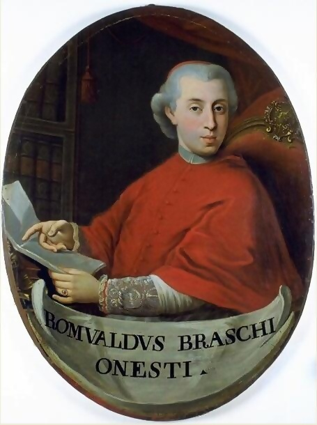 Portrait of Romualdo Braschi-Onesti, made cardinal in 1786